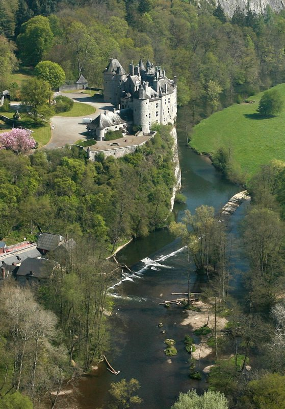 Walzin from sky